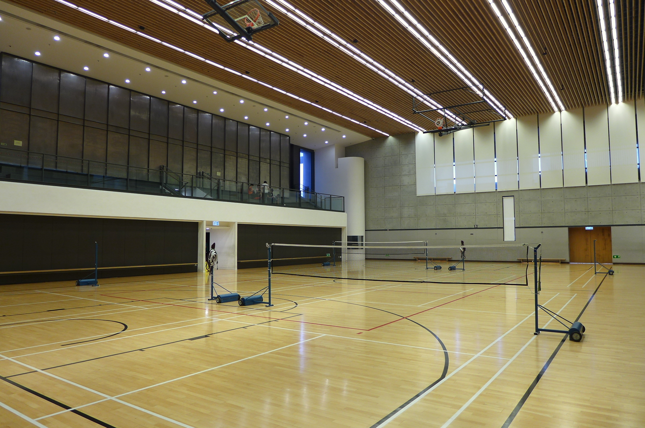 Ping Shan Tin Shui Wai Sports Centre Multi-Purpose Arena